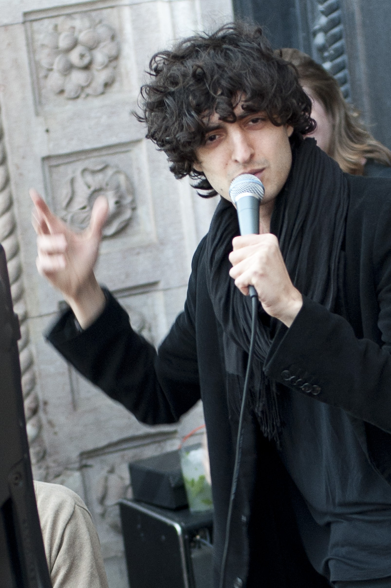 Armand Mirpour performing at an MTV party in Stockholm, Sweden, 2011